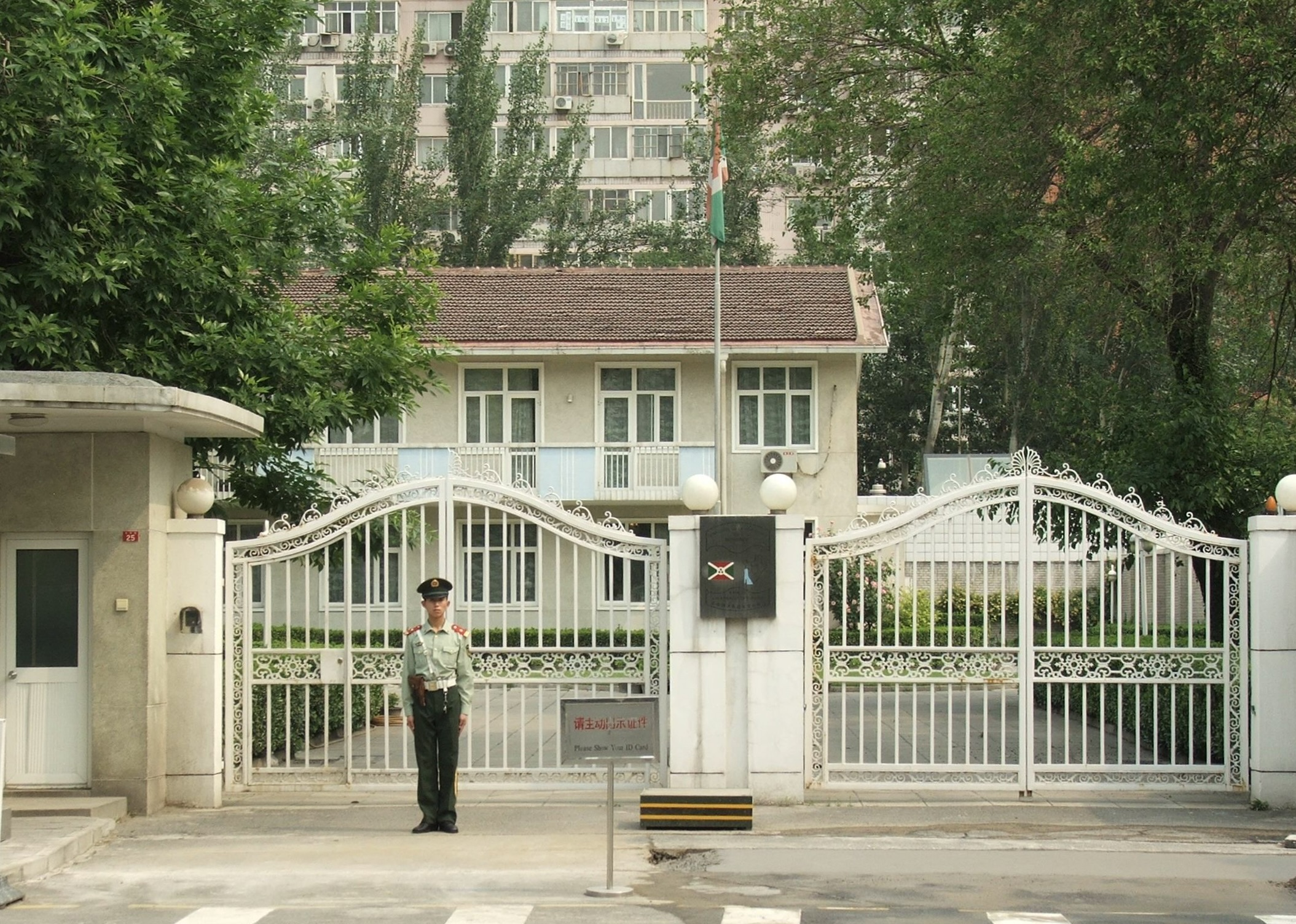 Embassy of Burundi in Beijing - China.